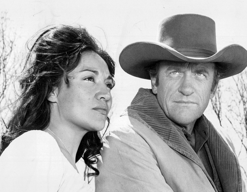 Photo of Miriam Colon and James Arness from the television series Gunsmoke.